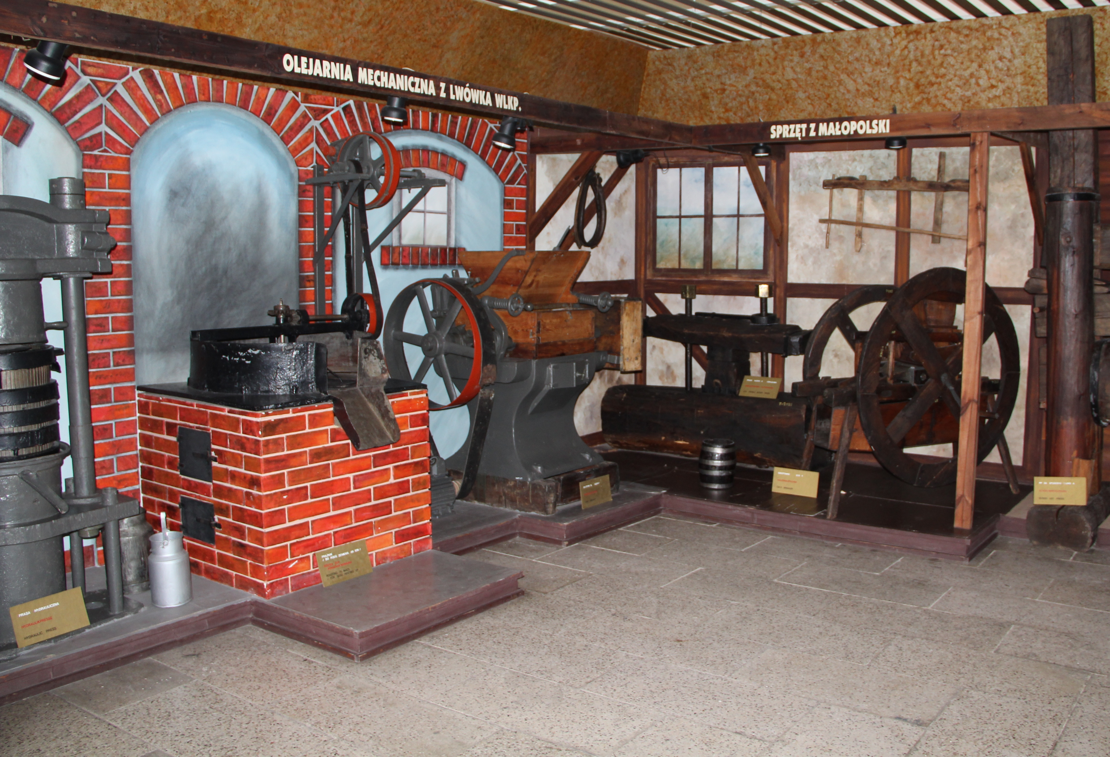 National Museum of Agriculture in Szreniawa